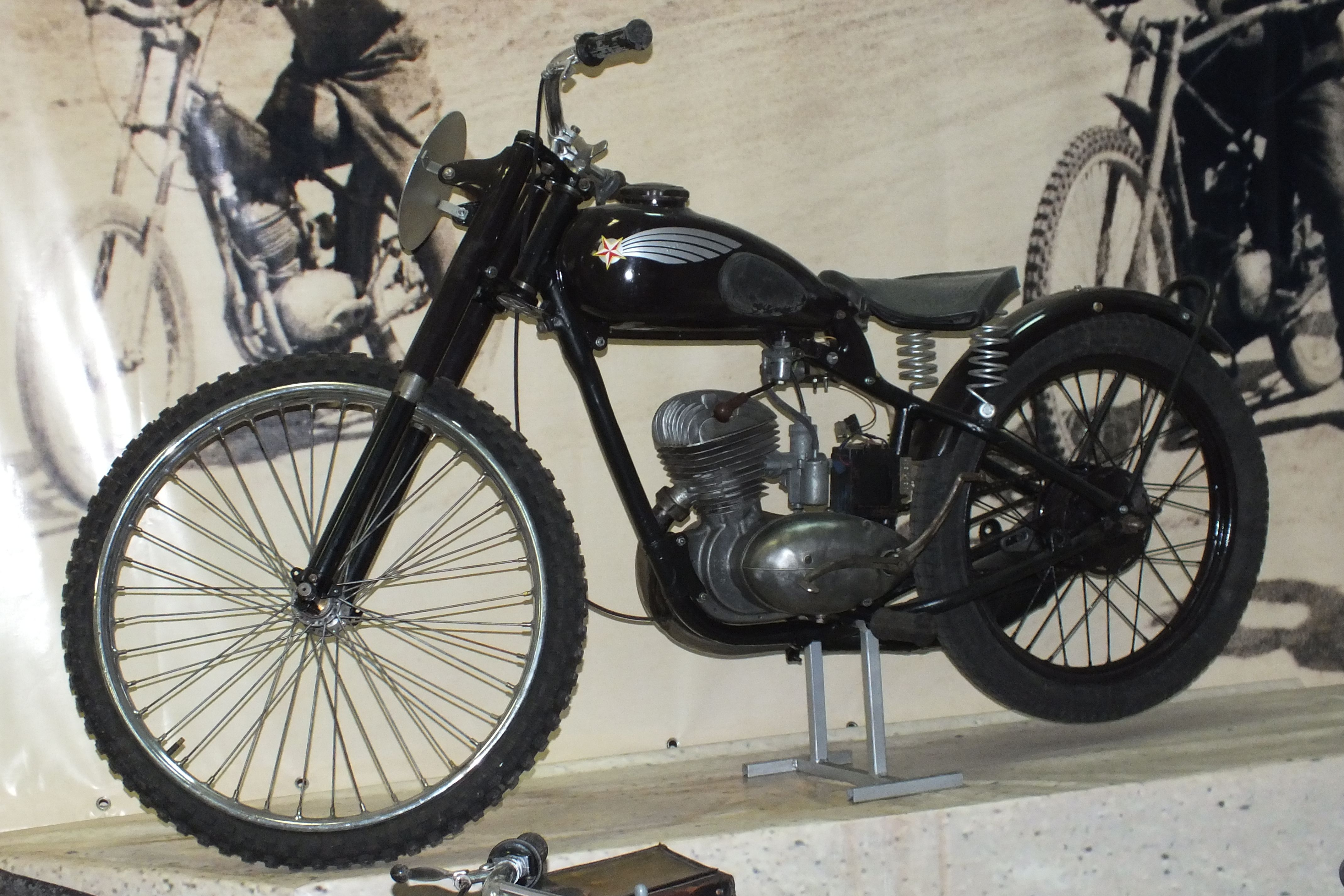 Motorcycles of Russia